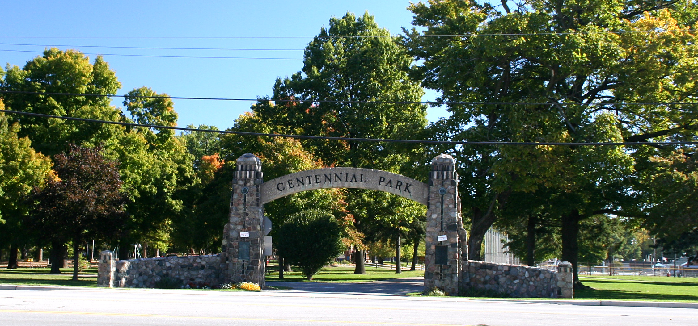 Centennial Park in Plymouth, Indiana. Photo shot by Derek Jensen (Tysto), 2005-October-15